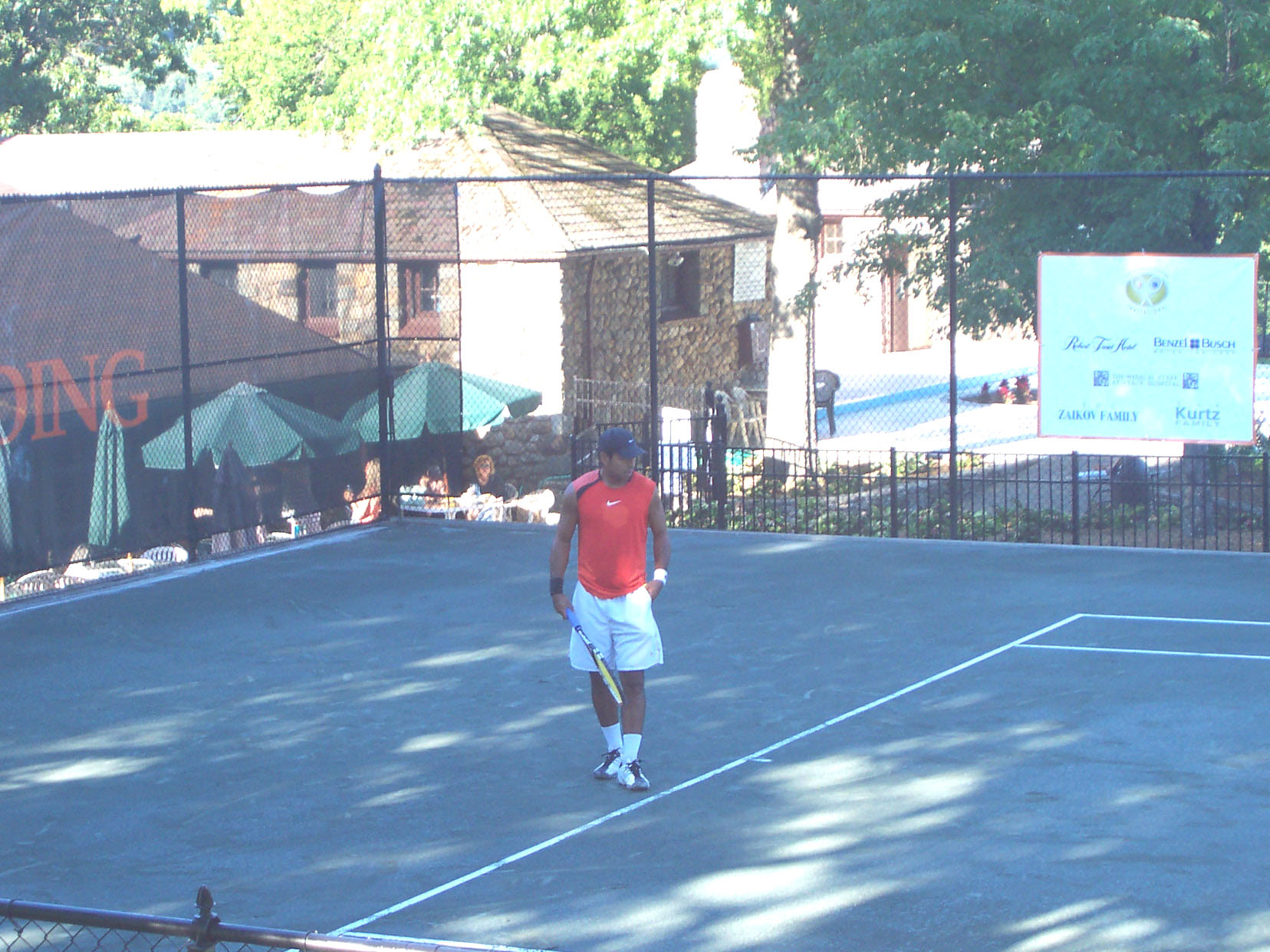 Bruno Echagaray Playin In New City, New York